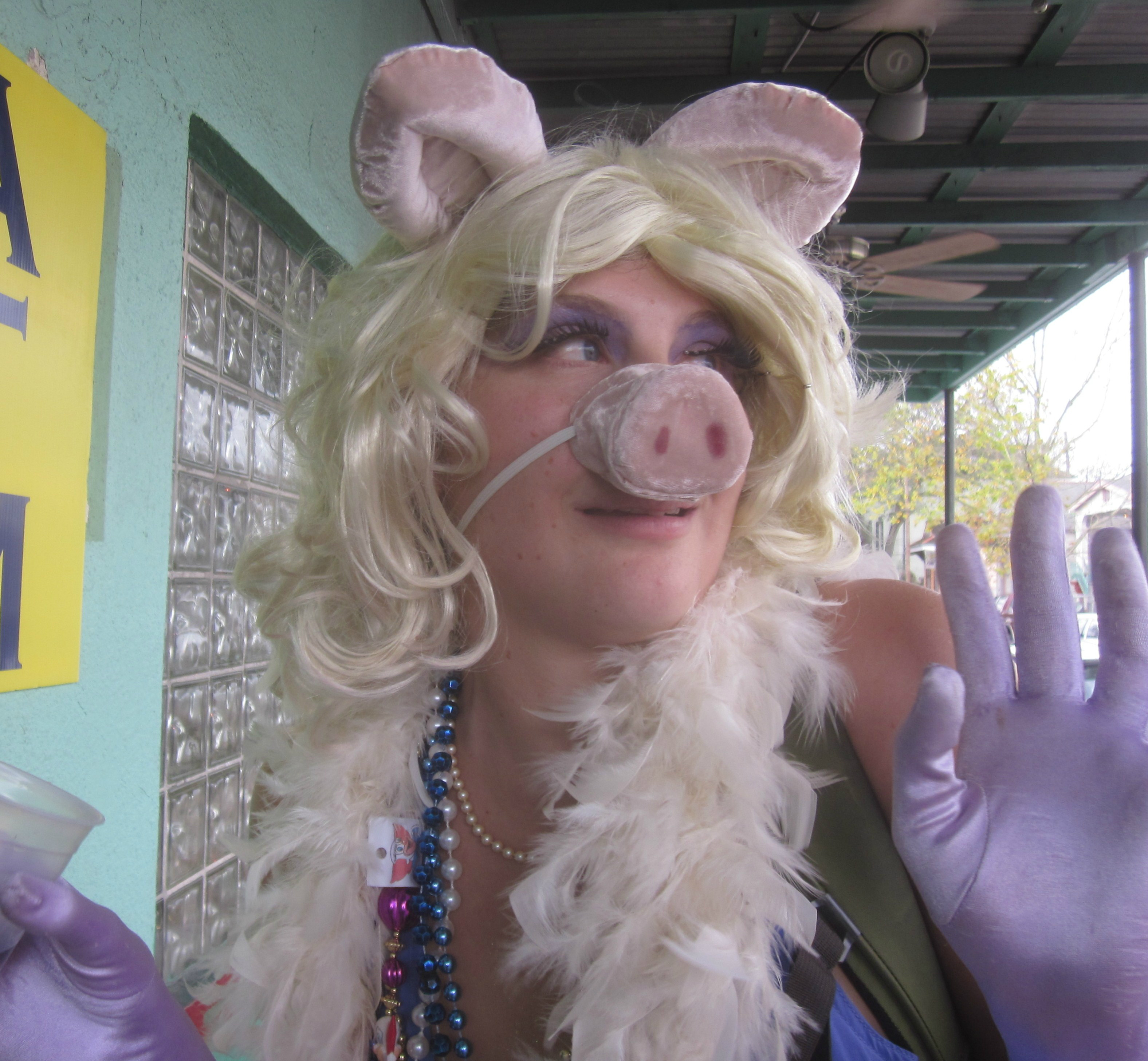 Mardi Gras Day in the Faubourg Marigny section of New Orleans.